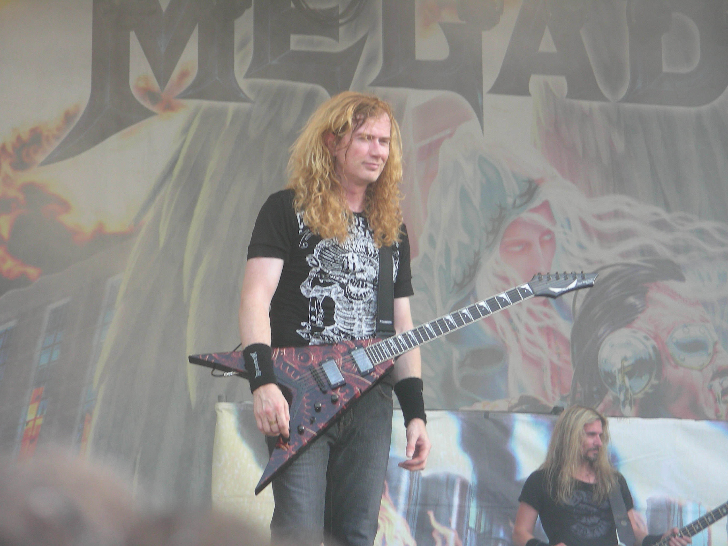 I Megadeth al Gods of Metal 2007